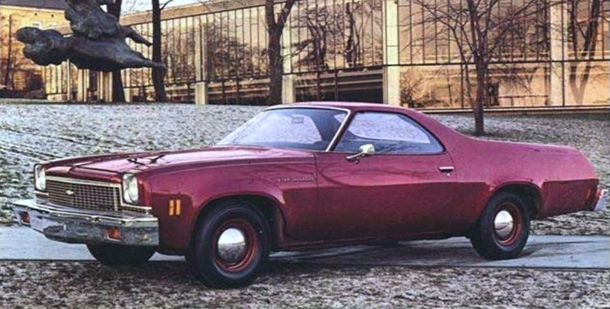 1973 Chevrolet El Camino